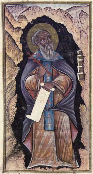 St. Hilarion, a 9th-century Georgian monk. A 18th century miniature from Georgia.